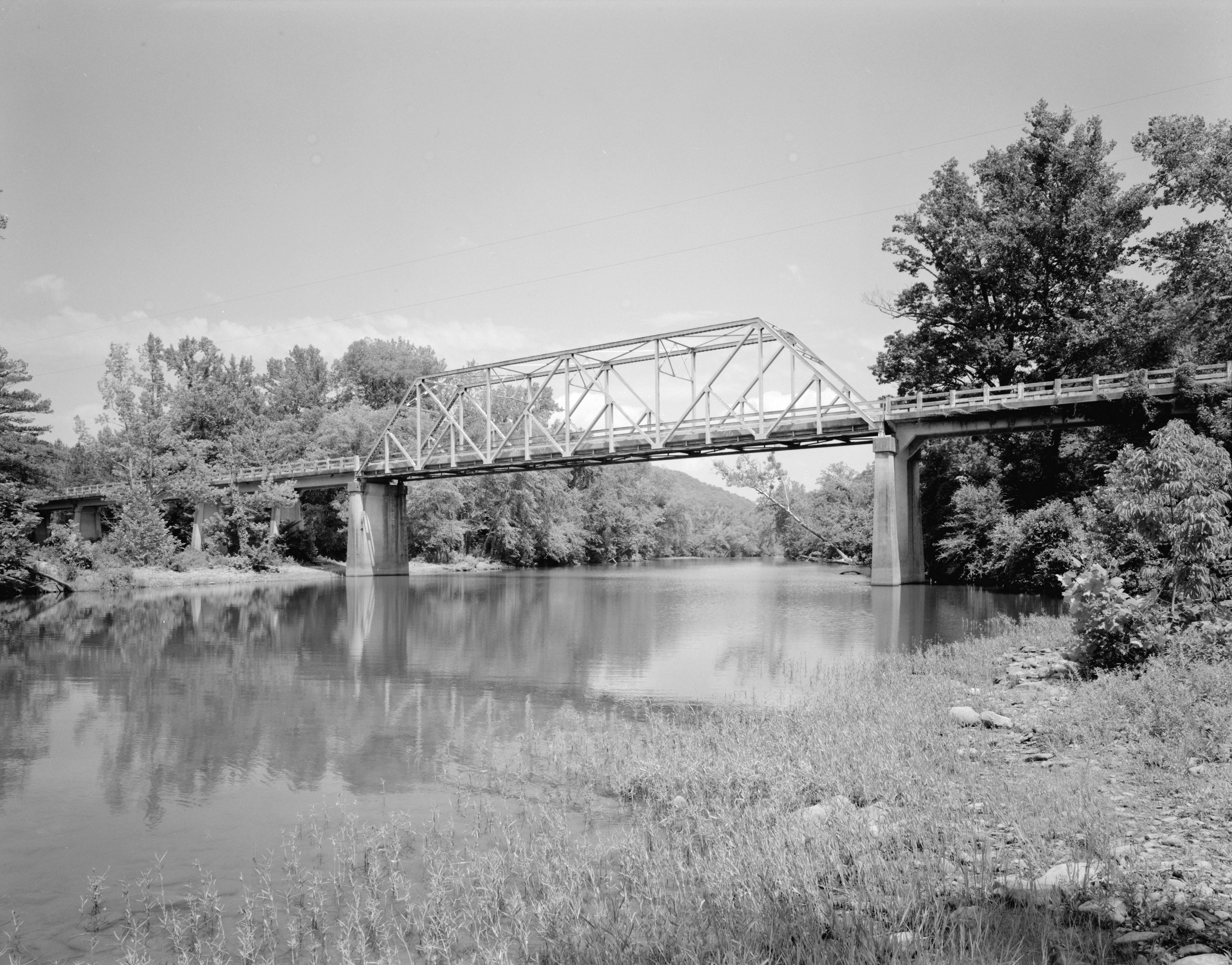 Southern (downstream) side of the Big Piney Creek Bridge, which carries Highway 123 over Big Piney Creek near Hagersville in the Ozark National Forest of Johnson County, Arkansas, United States. Built in 1931, this Warren through truss bridge is listed on the National Register of Historic Places.